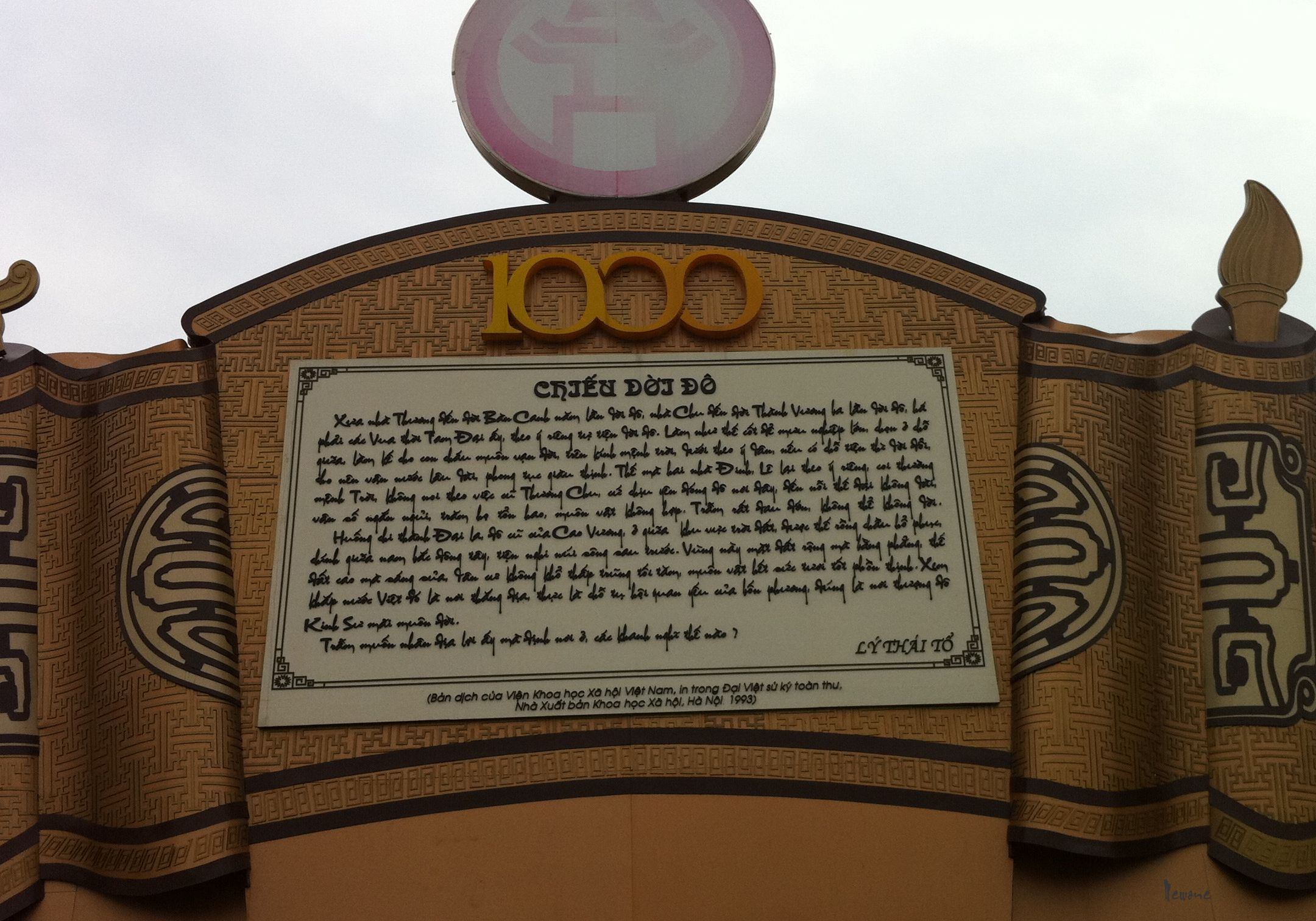 Chiếu dời đô / Millennial Anniversary of Hanoi